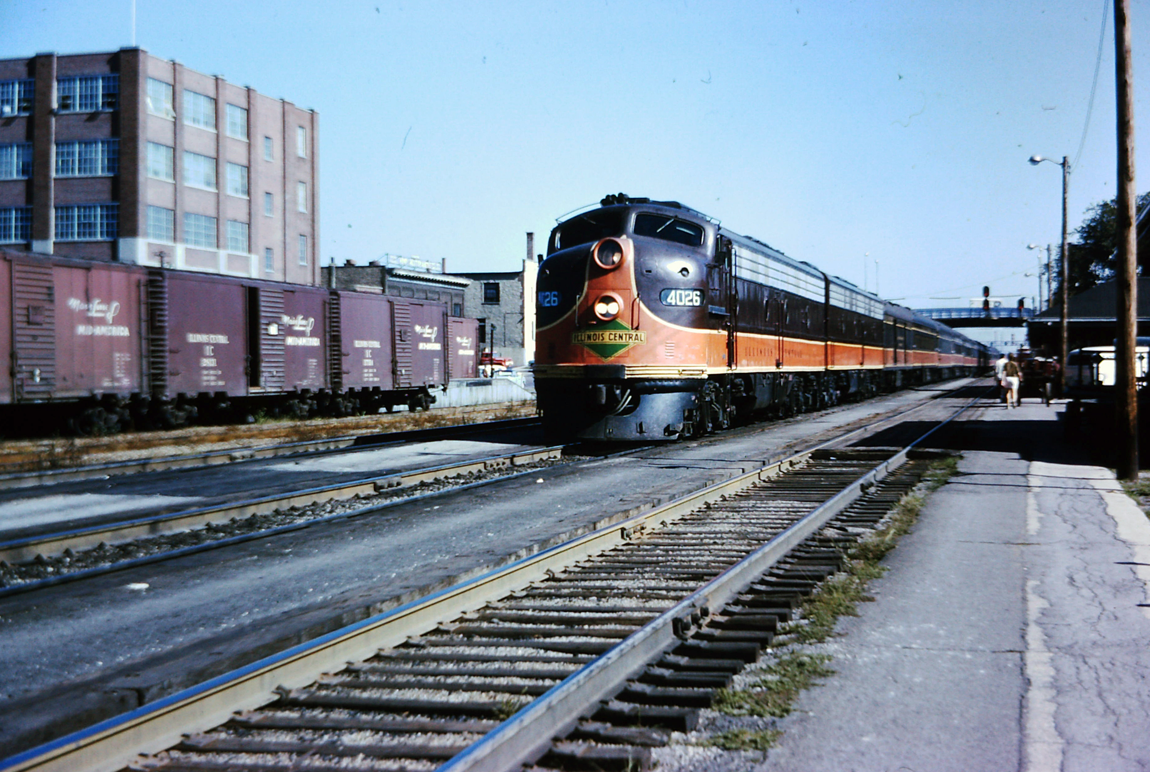 The Illinois Central's Green Diamond at Kankakee, Illinois. The train is led by EMD E8 #4026.